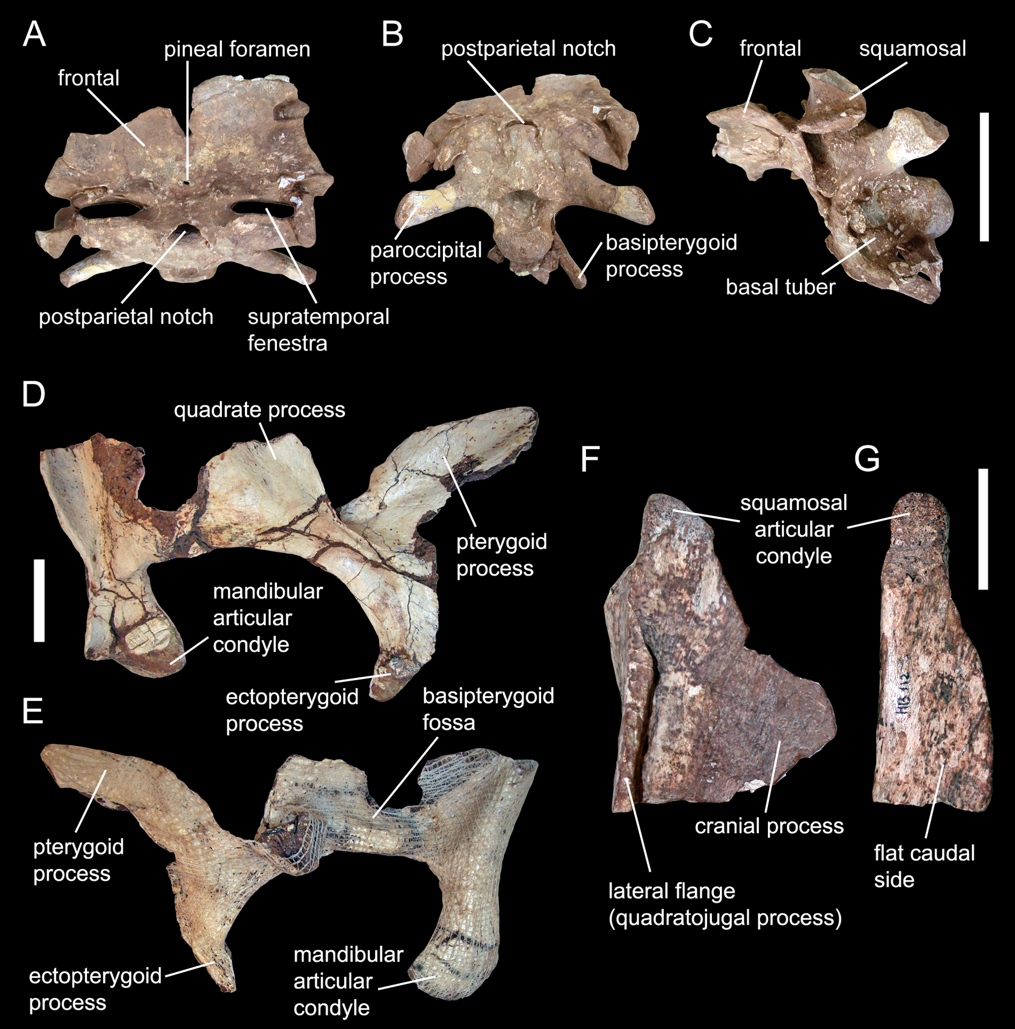 Spinophorosaurus nigerensis GCP-CV-4229 (holotype). (A–C)— Braincase in dorsal (A), caudal (B), and left lateral (C) views. (D, E)— Right quadrate and pterygoid in lateral (D) and medial (E) views. (F, G)— Dorsal end of right quadrate in lateral (F) and caudal (G) views. Scale bars = 10 cm (A–C), 5 cm (D, E), and 2 cm (F, G).